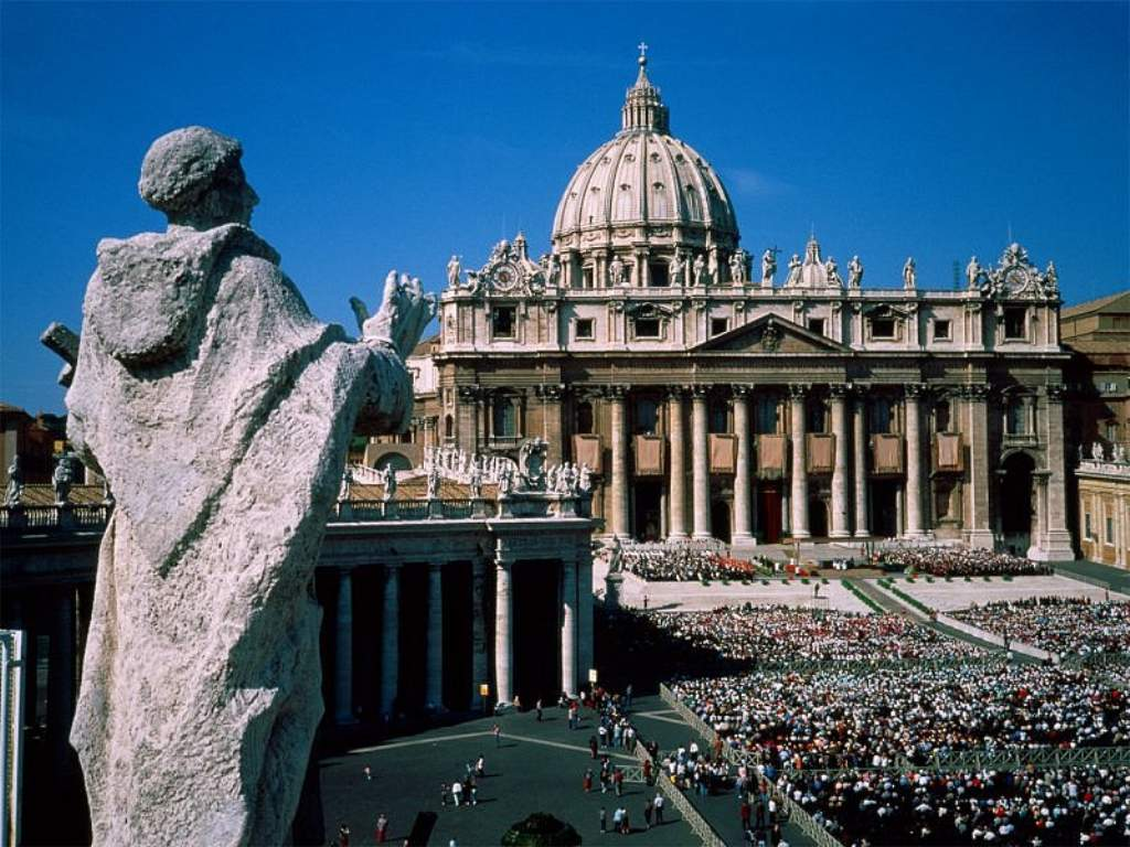 Saint Peter's Basilica and Square